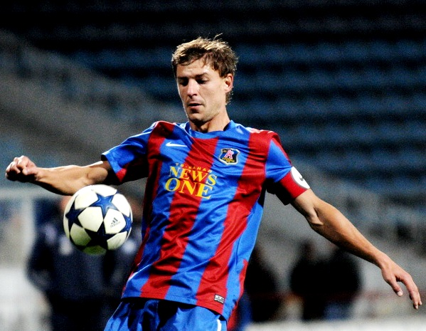 Maksim Shatskikh is an Uzbek football player